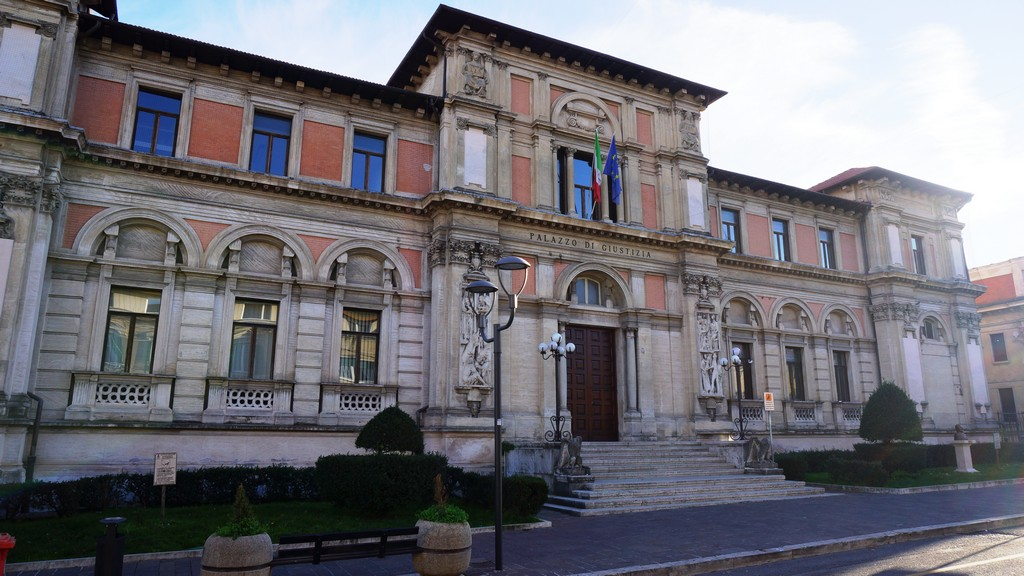 Justice palace, Avezzano, Abruzzo, Italy